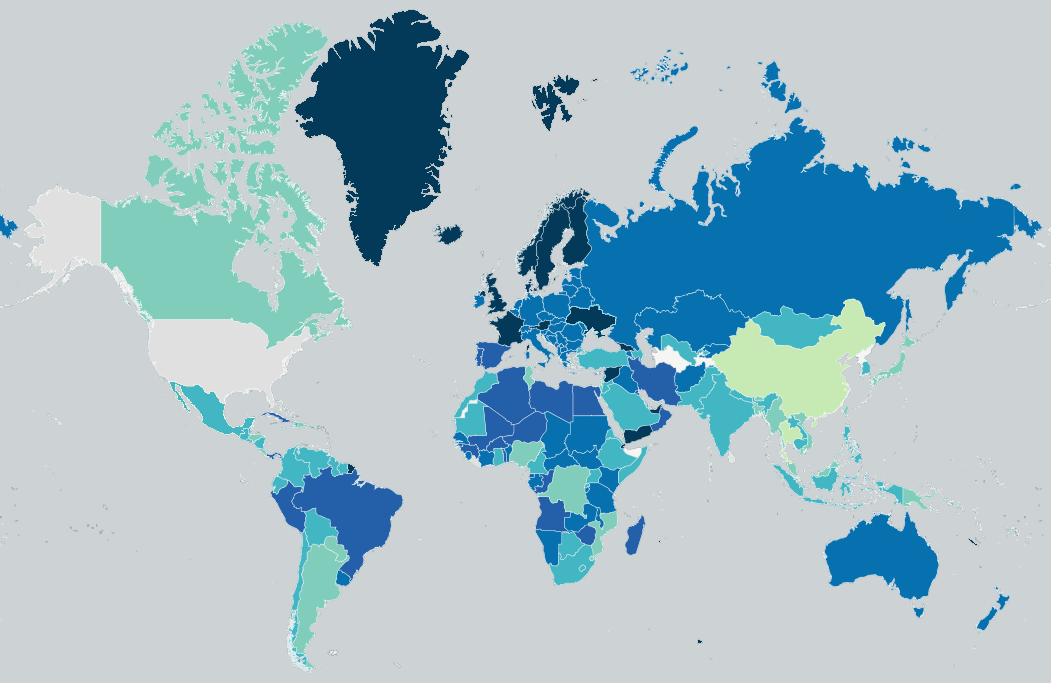 Map of minimum mandatory vacation days around the world. No data No mandatory vacation 1–5 days 6–10 days 11–15 days 16–20 days 21–22 days 23–28 days